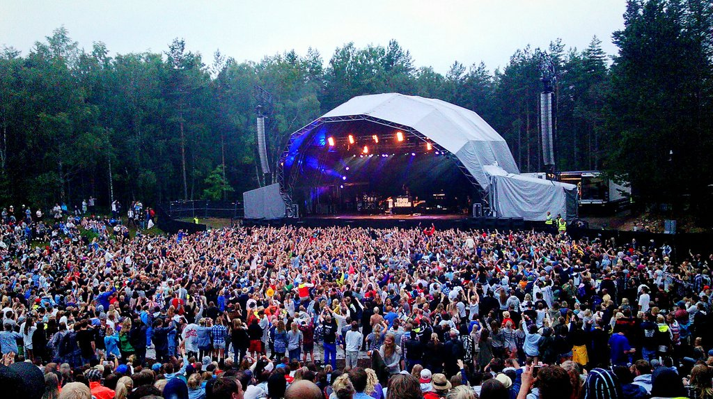 Taken with picplz at Hove Festival in Arendal, Norway.